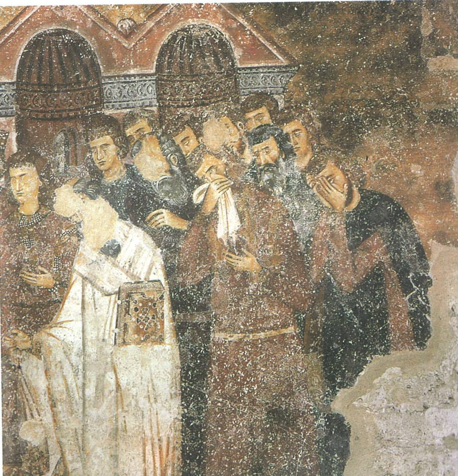 Mourning nobility at the burial of Anna Dandolo, detail from a fresco in Sopoćani